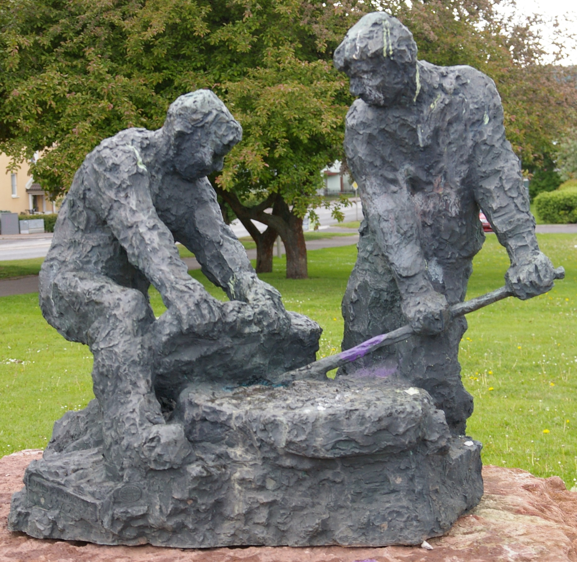 "Kalkarberarna" (Swedish: "(The) workers of the limestone quarry") by Jalmar Lindgren.